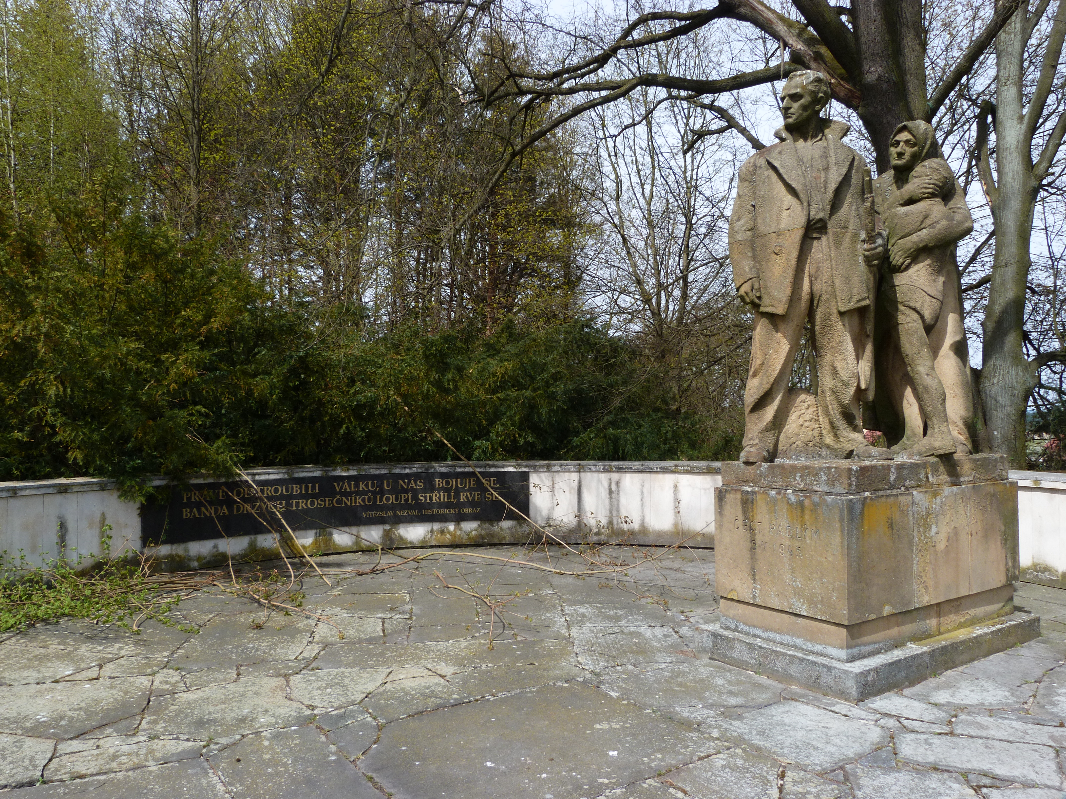 Leskovice, Pelhřimov District, Czech Republic